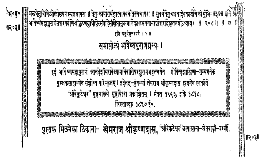 Last page of Bhavisya Purana published by Khemraj Shrikrishnadas, 1897 AD